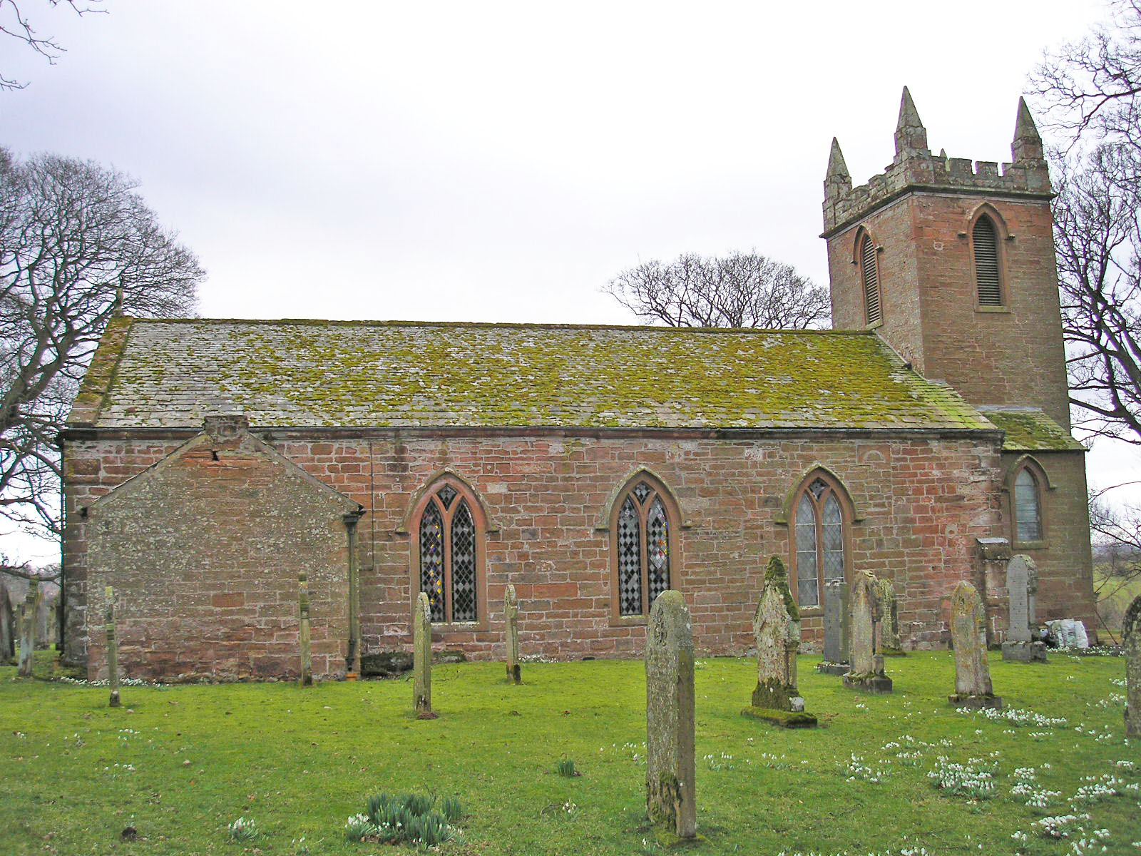 St Cuthbert's parish church, Dufton, Cumbria, England, seen from the north